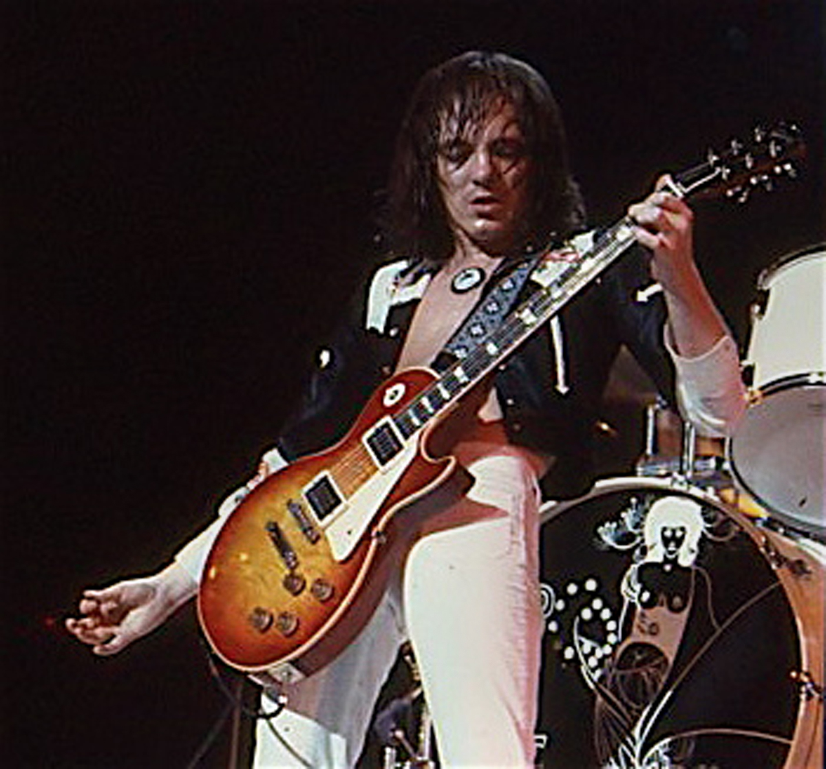 Steve Marriott with Humble Pie at Madison Square Garden